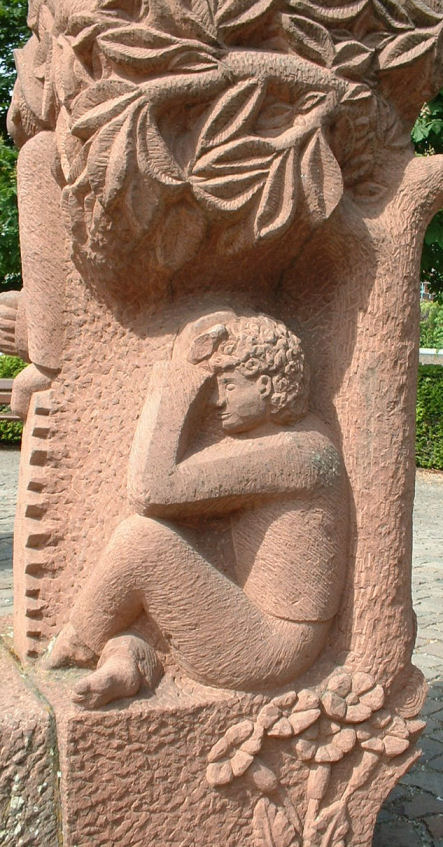 view of Ludwigshafen, Germany